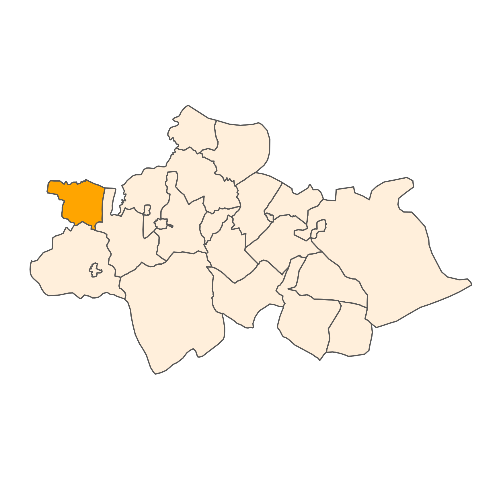 Commune (Orange), Sefrou Province (Antique White)